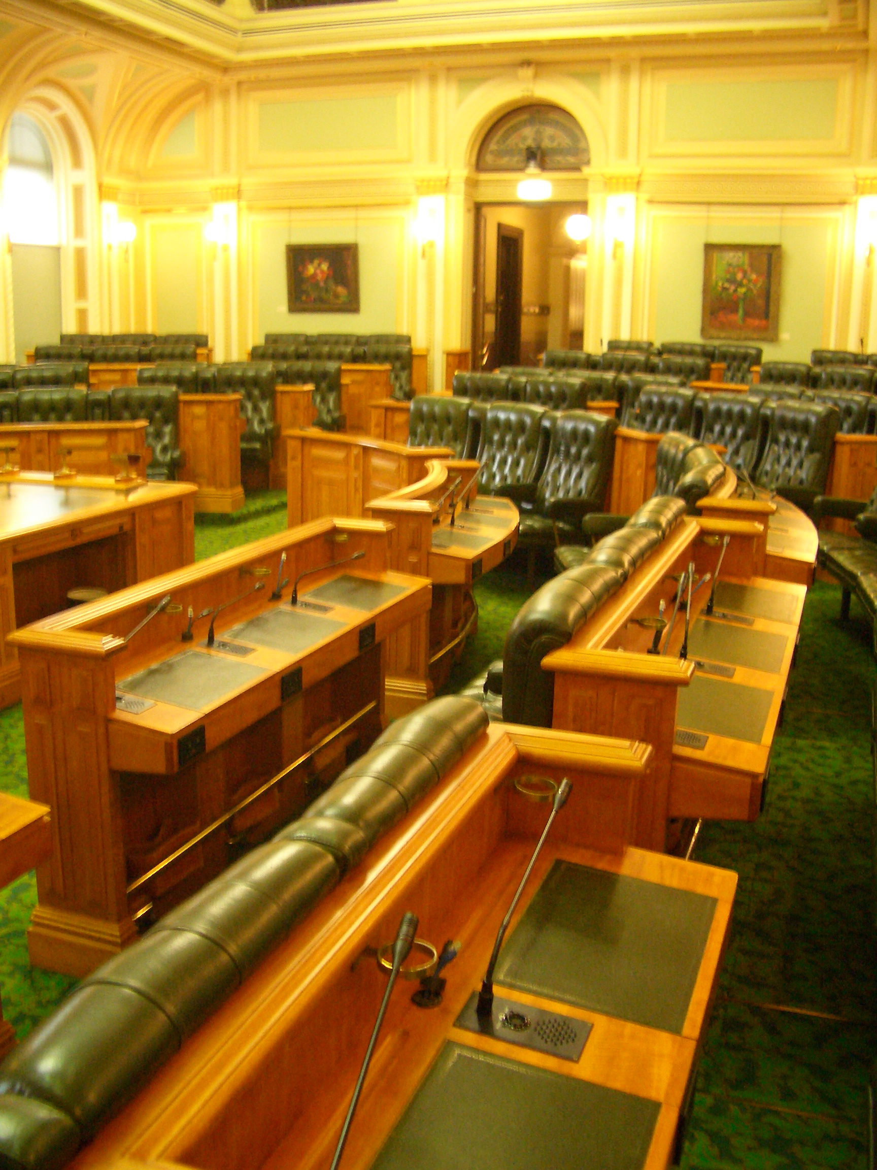 Chamber of the Queensland Legislative Assembly, taken on my own camera